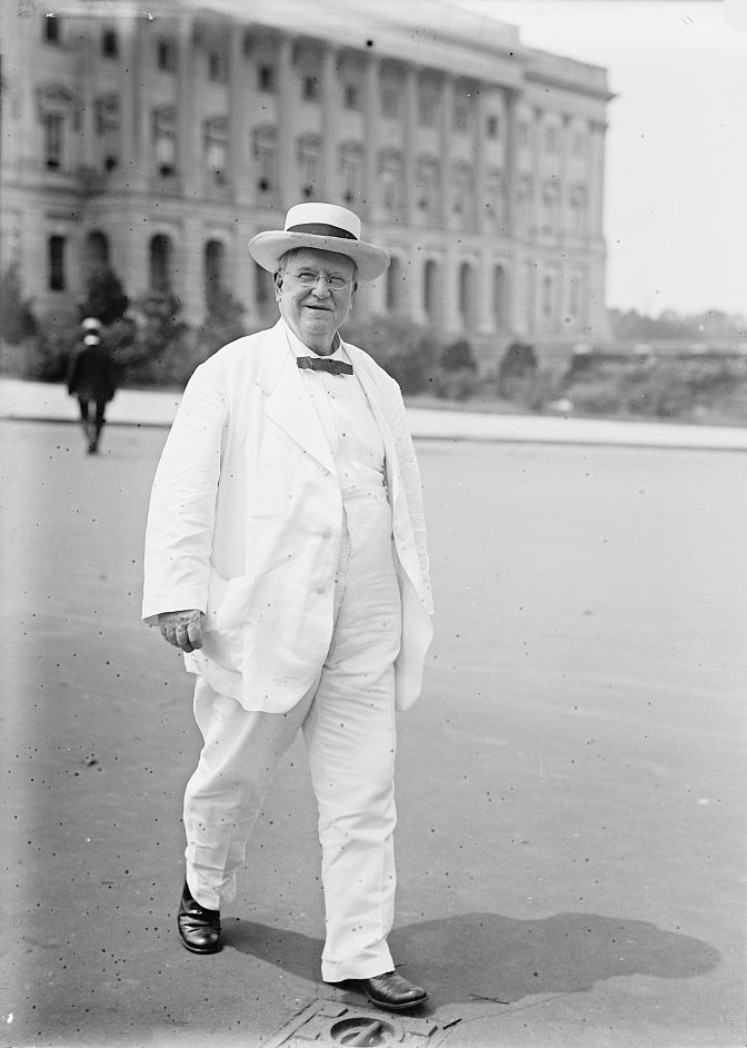 William O'Connell Bradley from 1 negative : glass ; 5 x 7 in. or smaller.